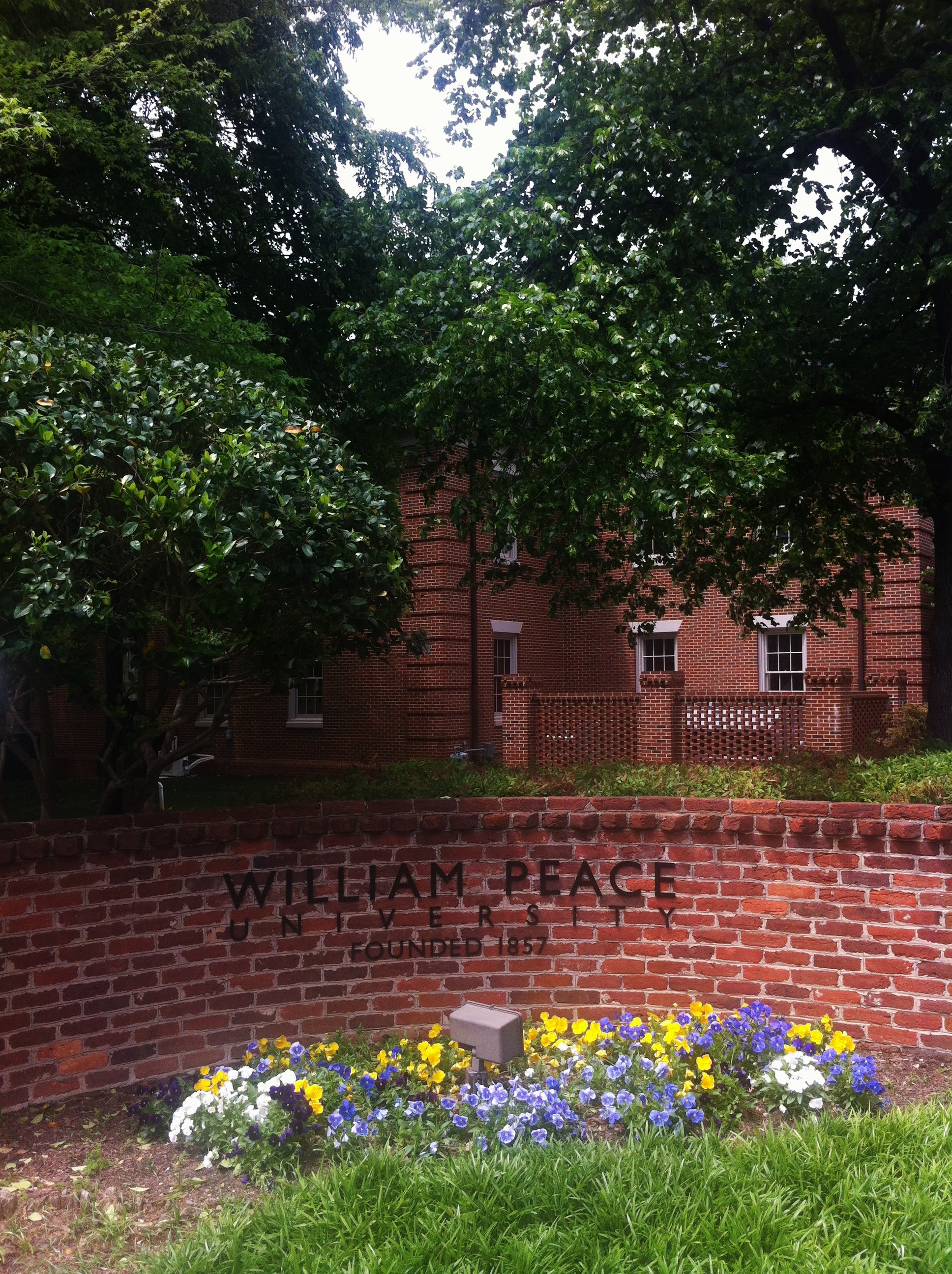 Courtyard and famous icon of William Peace University located in Raleigh NC